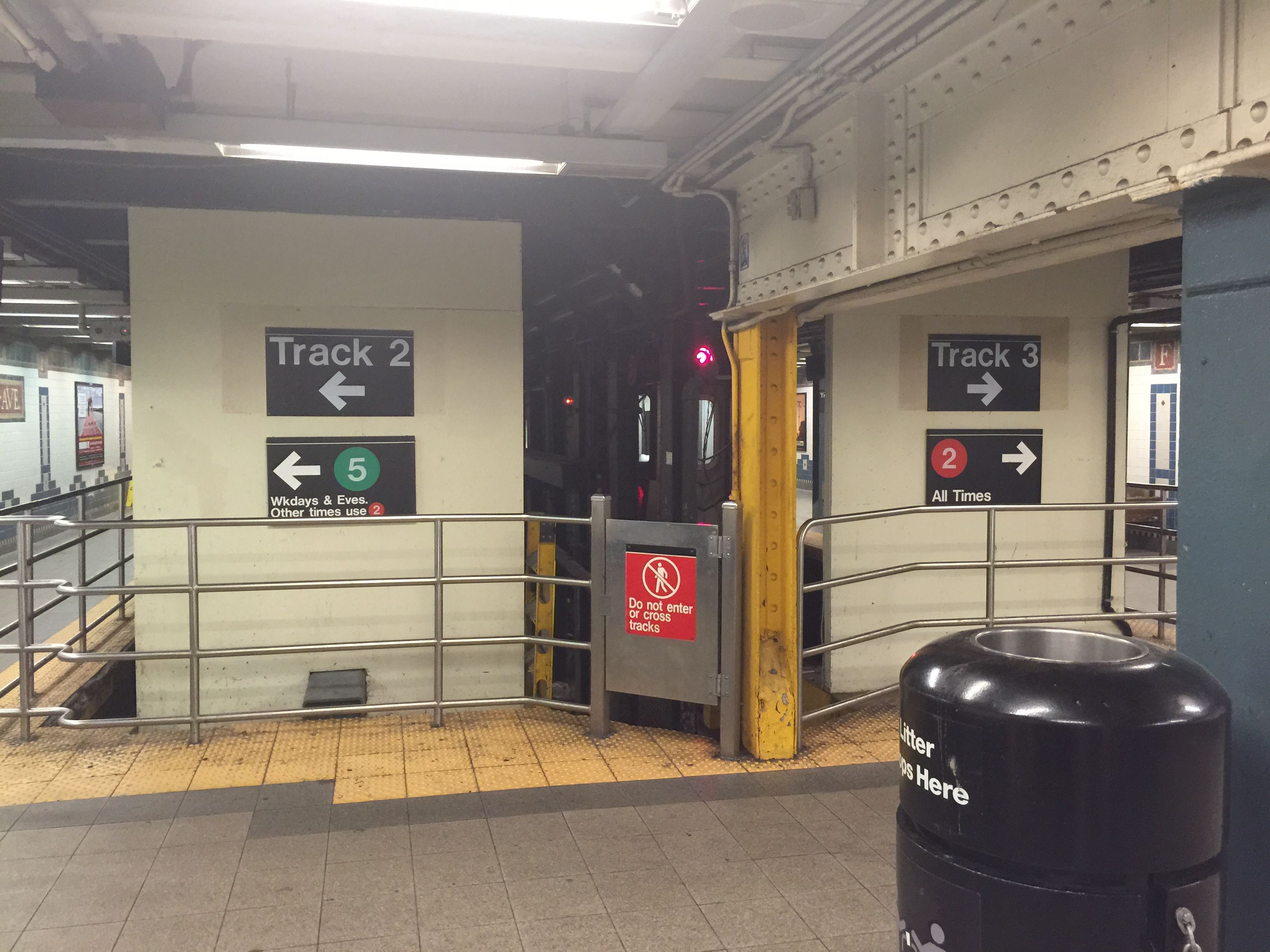 The end of the tracks at the southern end of the station